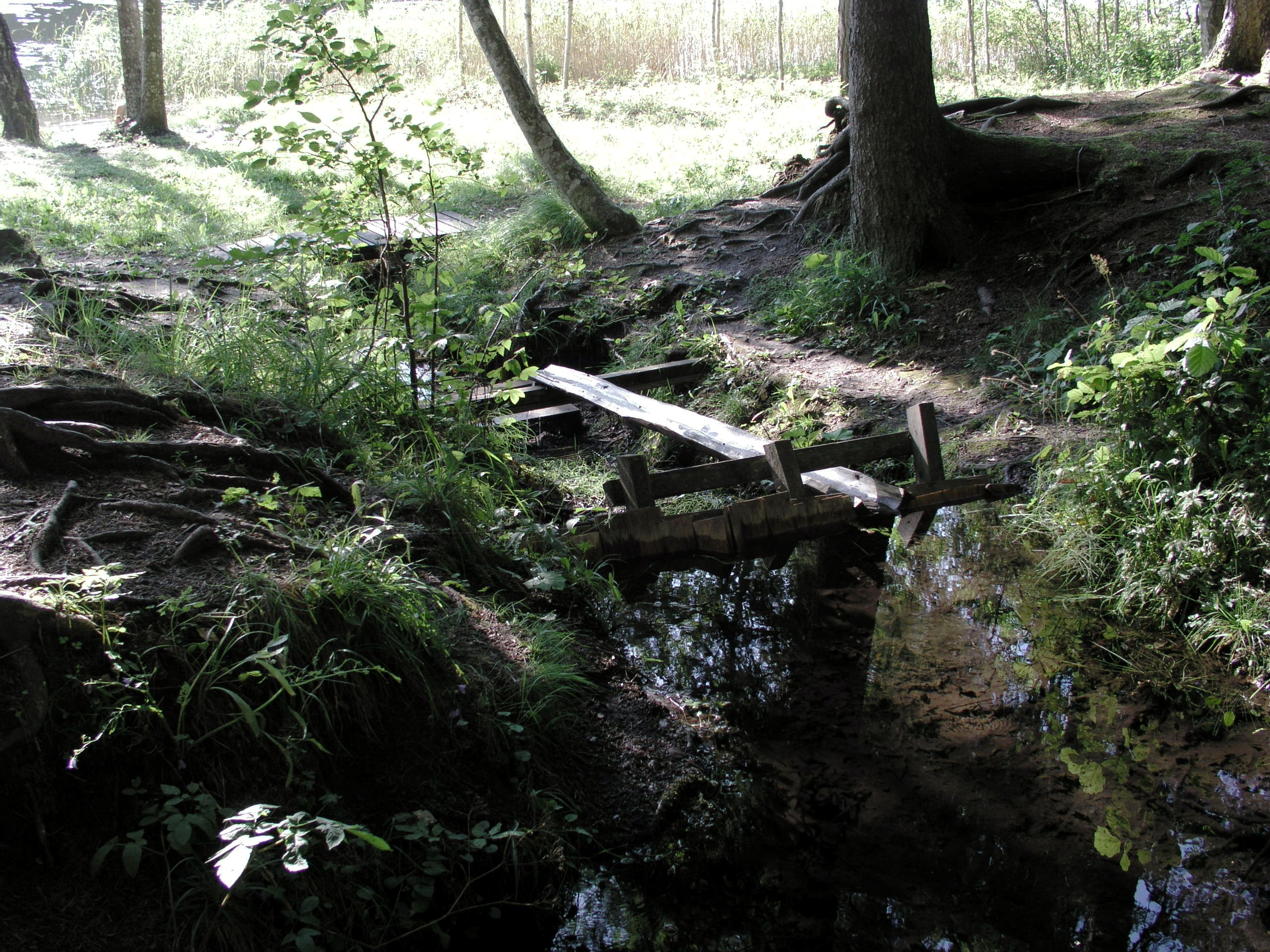 Cold water spring, 4 km North-North-West from the Castle of Tullgarn, Södertälje, Sweden